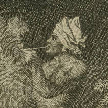 "Chatoyer the Chief of the Black Charaibes in St. Vincent with his five Wives." 1796